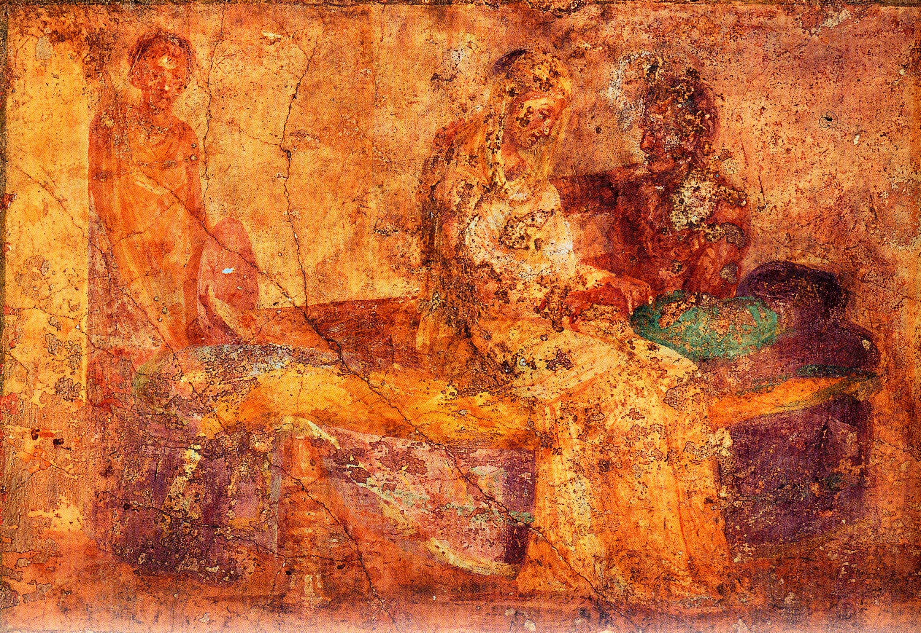 Fresco of couple in bed. Man talks to his shy bride. A servant on the left watches the scene. Fresko from the left side of the right wall of cubiculum D in the Casa della Farnesina in Rome. Ca. 19 BC. Museo Nazionale Romano, Palazzo Massimo alle Terme, Inv. 1188.